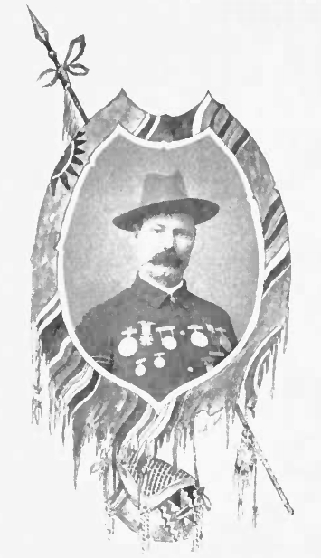 United States Army Private John Nihill of the 5th Cavalry Regiment received the Medal of Honor for his actions in the Indian Wars.